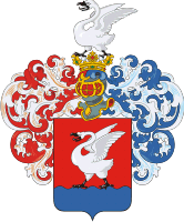 Coat of Arms of Markiewicz family